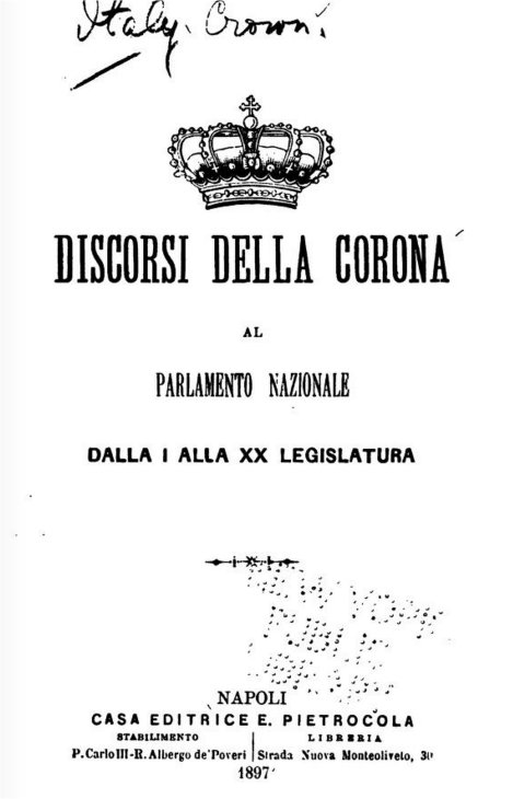 frontispiece of the book Discorsi della Corona al Parlamento Nazionale dalla I alla XX Legislatura. Da Internet Archive